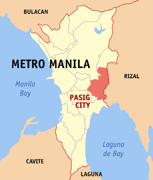 Locator map of Pasig City in Metro Manila, Philippines.